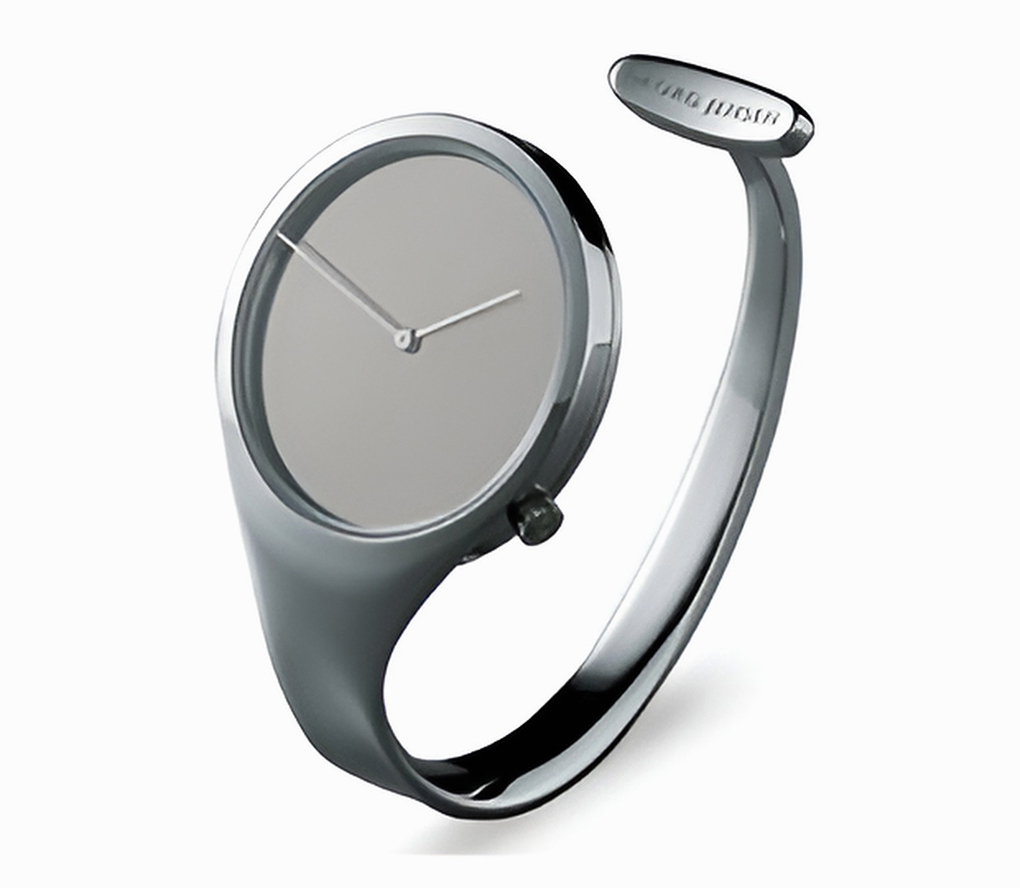 Vivianna watch by Torun Bülow-Hübe.